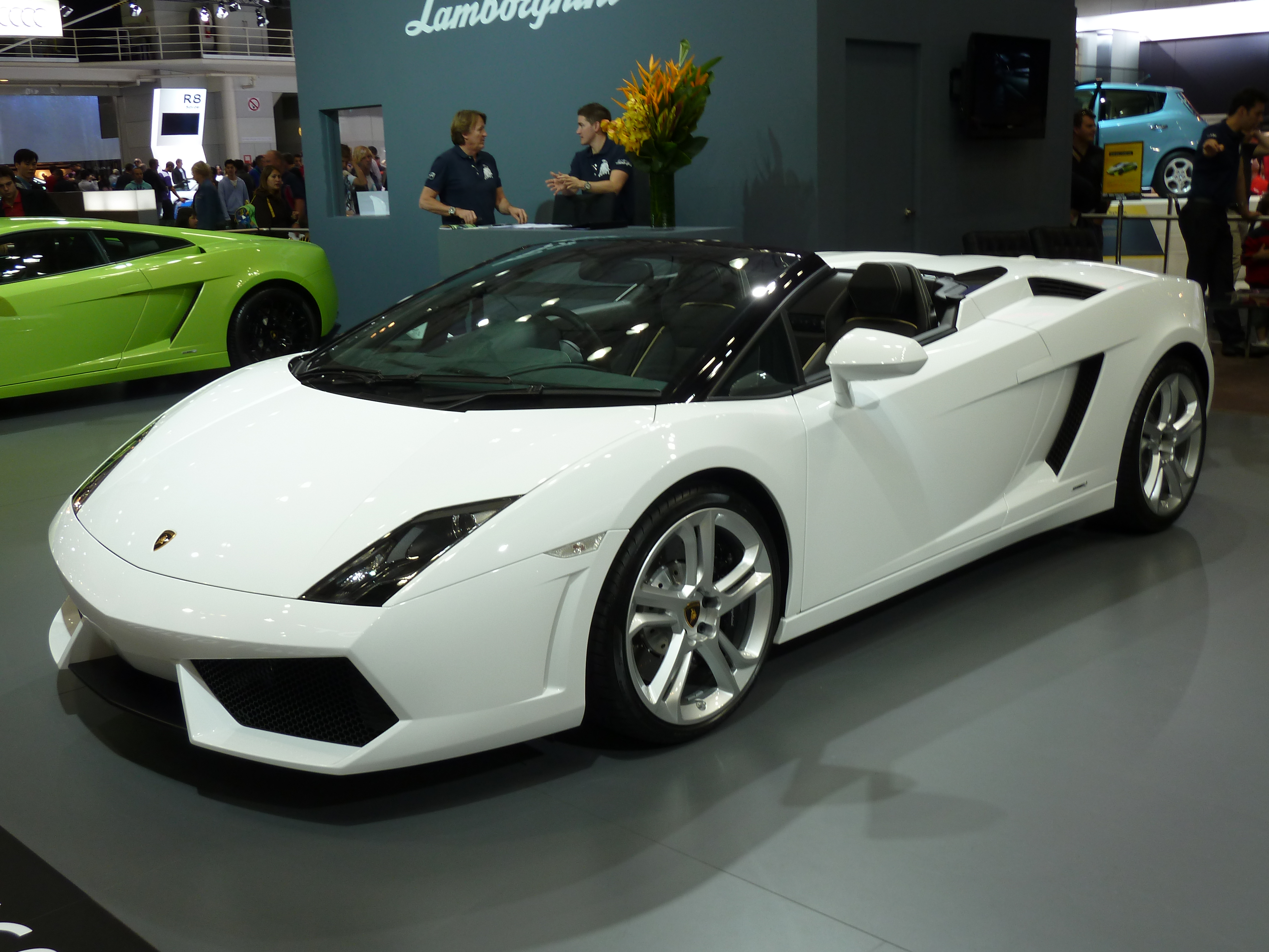 2009–2010 Lamborghini Gallardo (L140) LP 560-4 Spyder. Photographed at the 2010 Australian International Motor Show, Sydney, New South Wales, Australia.